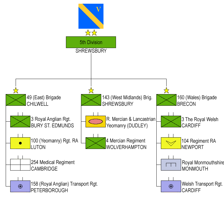 United Kingdom Army 5th Division Structure